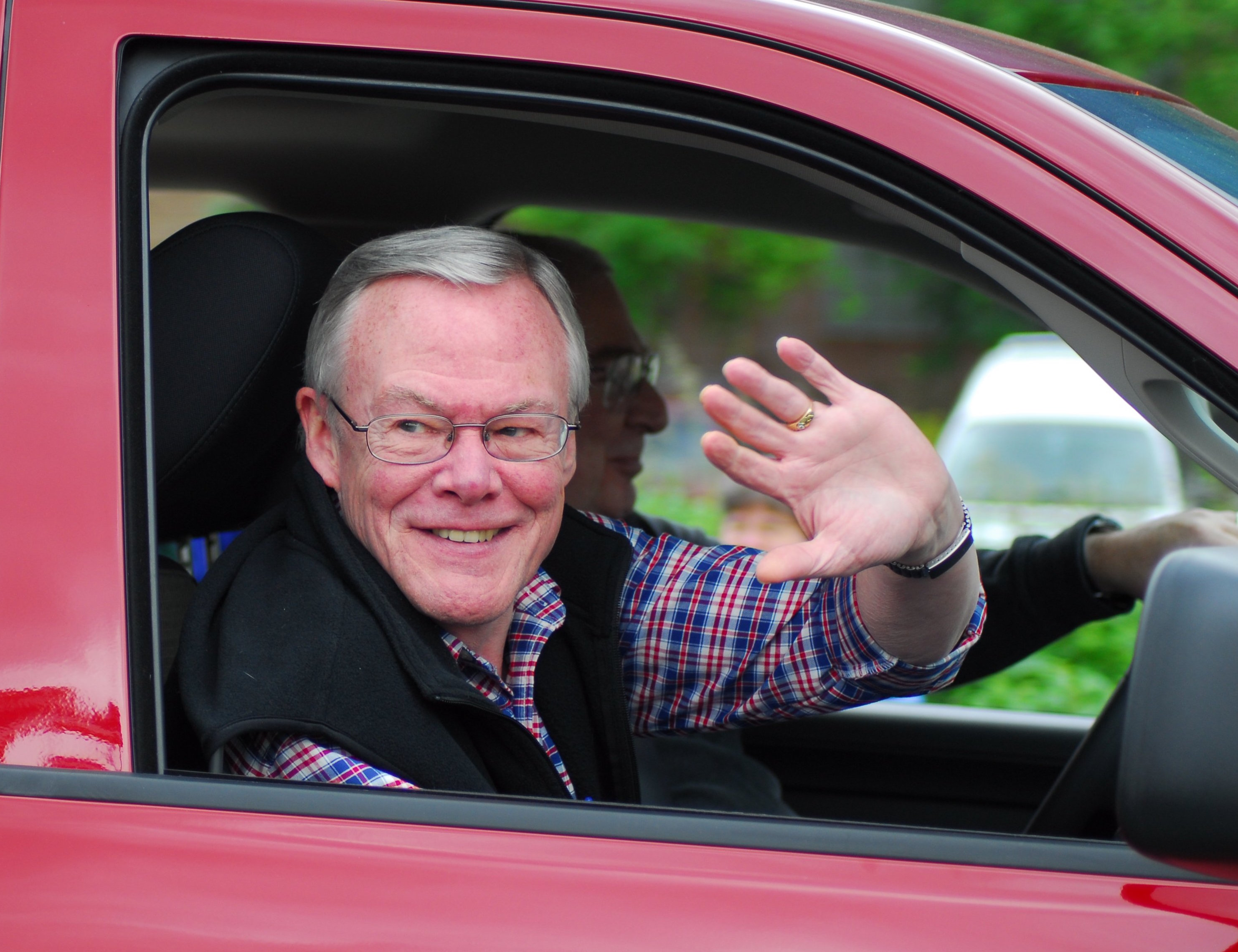 The parade's Grand Marshal, Senator Dennis Egan.